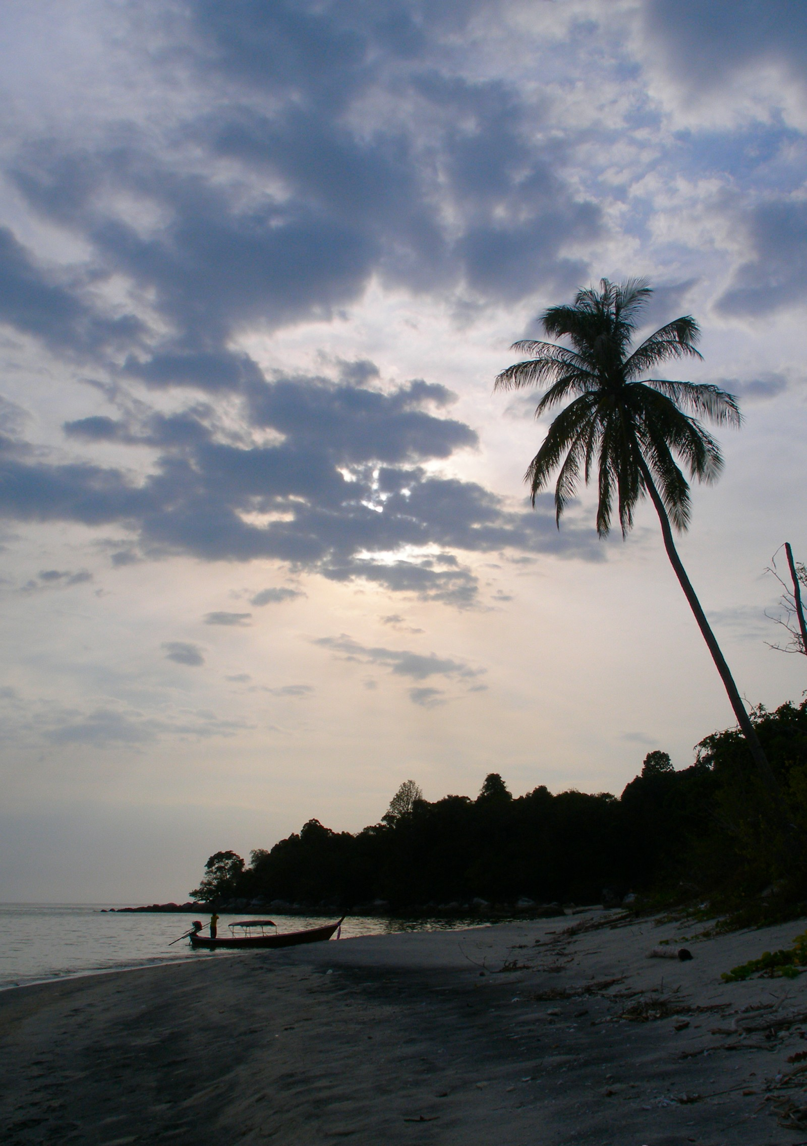 Koh Adang beach at sunset, southern Thailand